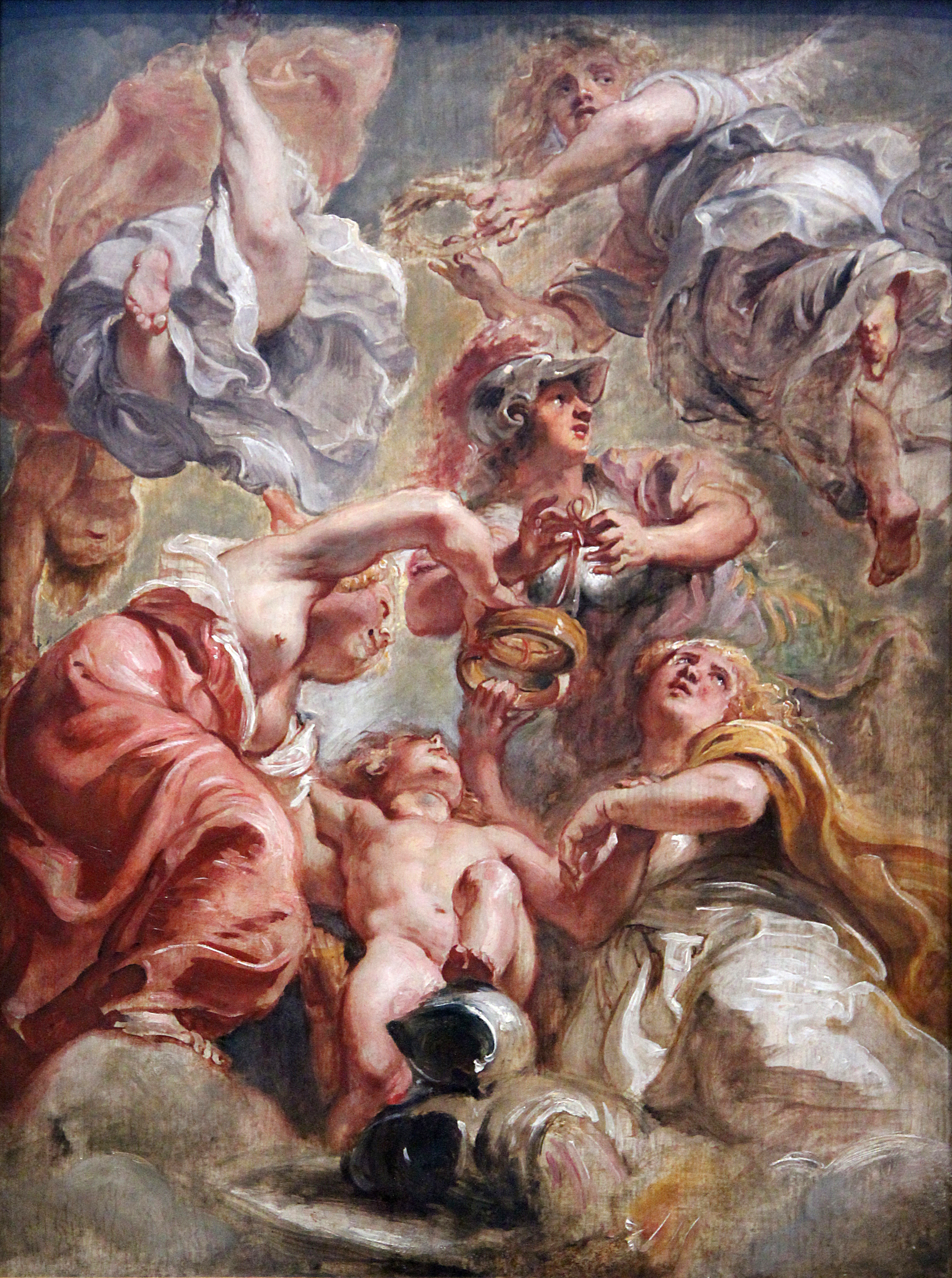 Work belonging to the Museum Boijmans Van Beuningen (Rotterdam) photographed during the exhibition « Rubens et son Temps » (Rubens and His Times) at the Museum of Louvre-Lens.